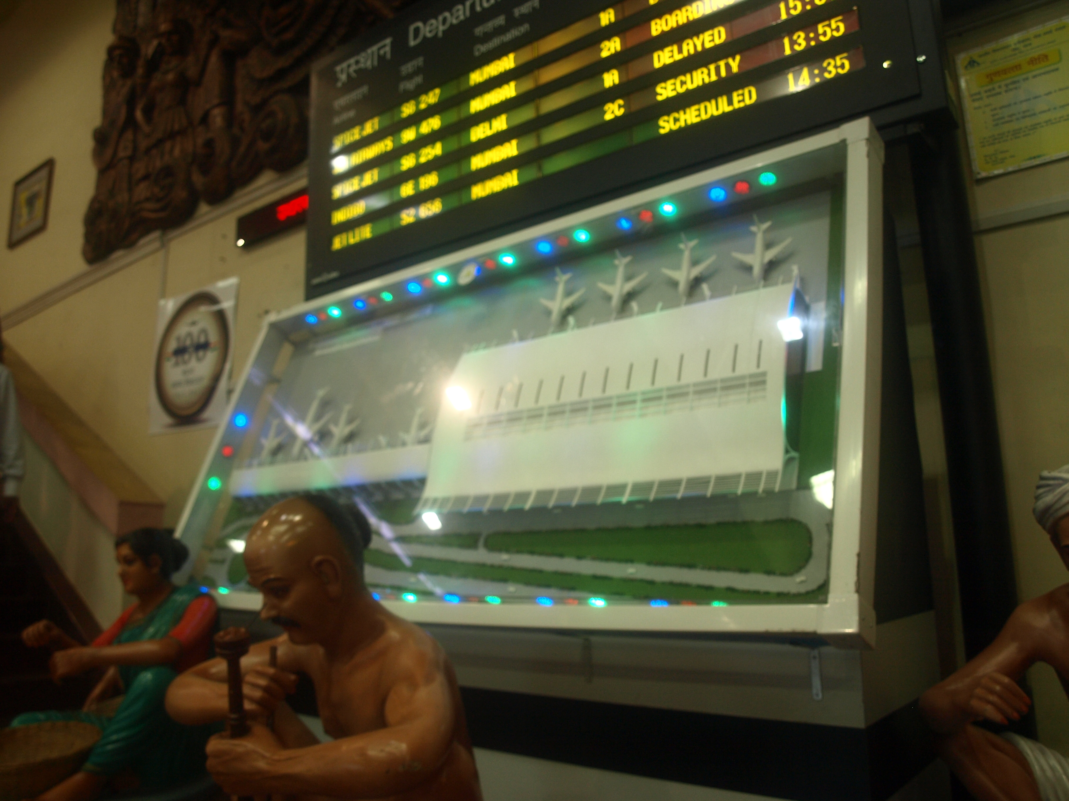 At Dabolim airport, Goa, India